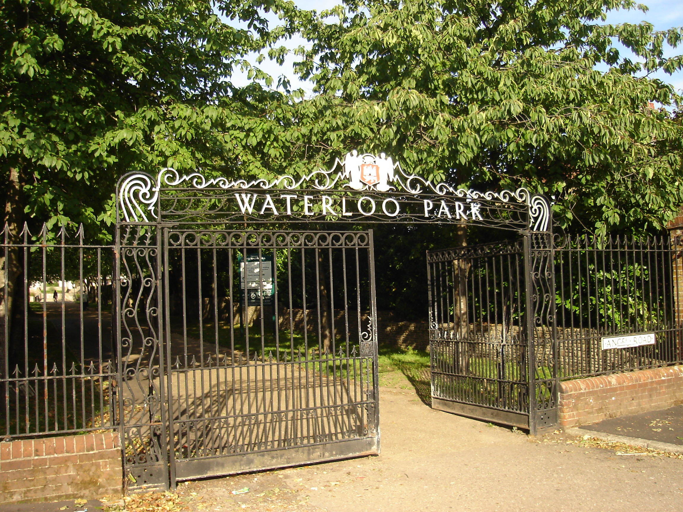 Waterloo Park , Norwich, gates at the Angel Road entrance. The Coats of arms is supported by angels